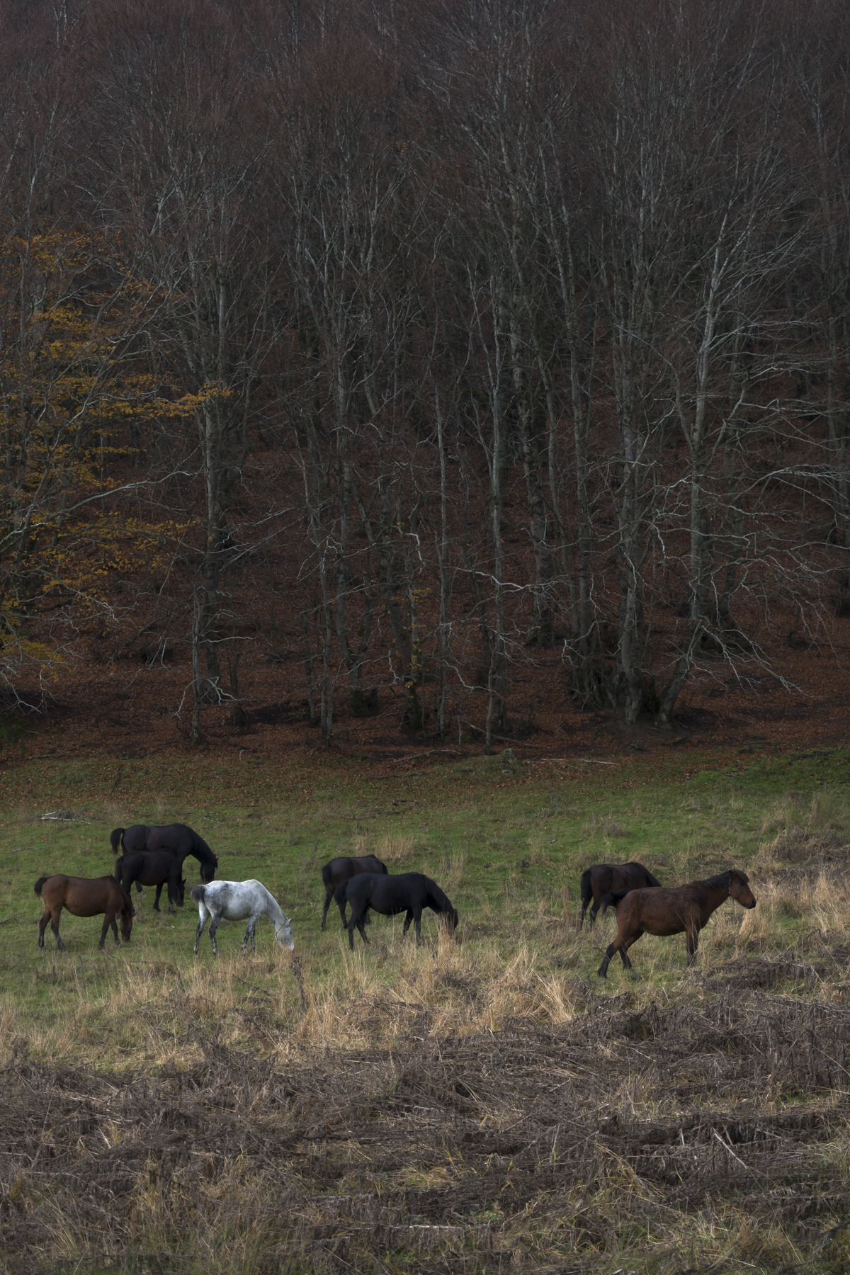 Wild horses inside National park of Valia Kalda by Philip Gavrilos This is a photography of Natura 2000 protected area with ID GR1310003